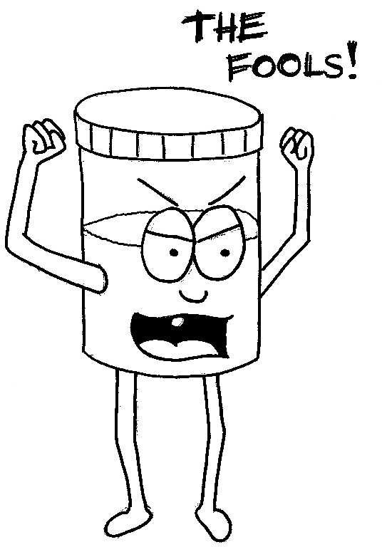 Image of a Zhavric as a jar of applesauce.